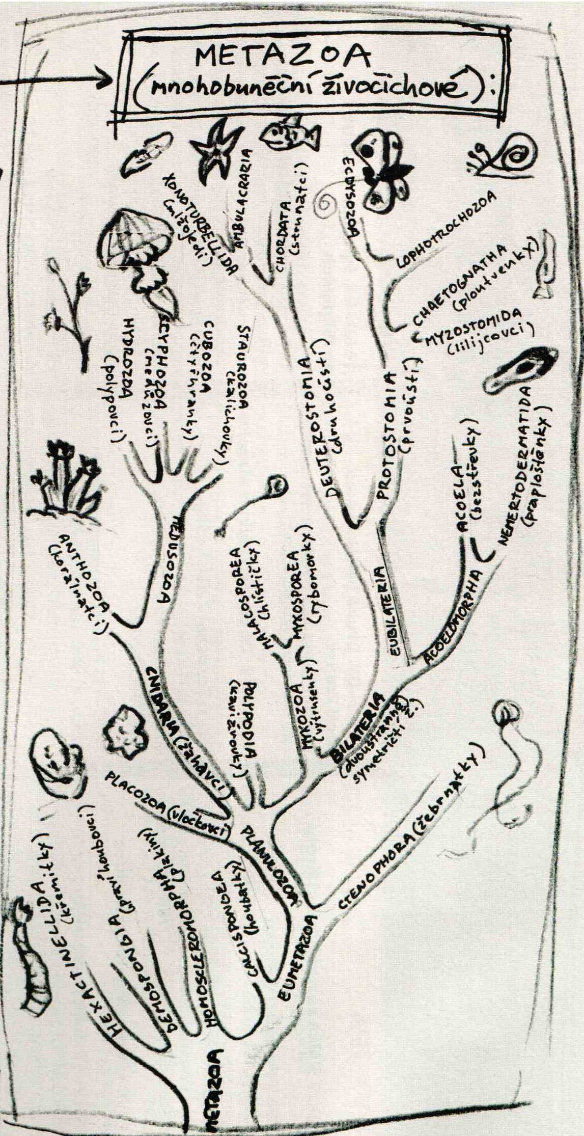 Phylogeny of metazoa. (in czech) Česky: Fylogeneze mnohobuněčných živočichů.